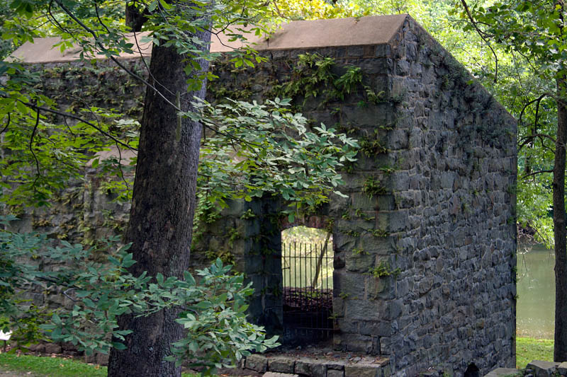 Unrestored gunpowder mill building at Hagley Museum, Wilmington, Delaware, site of original DuPont gunpowder mills